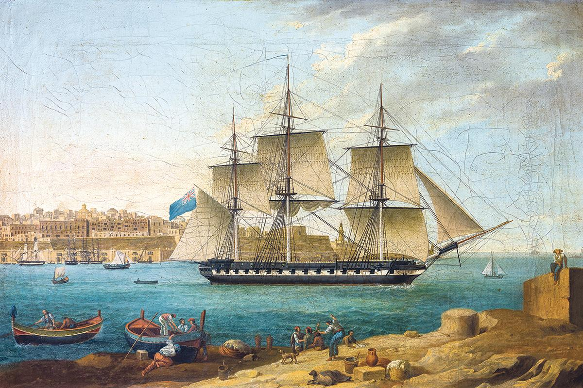 HMS Seringapatam at anchor in the Grand Harbour, Valetta Harbour between 1824 and 1827, by Anton Schranz